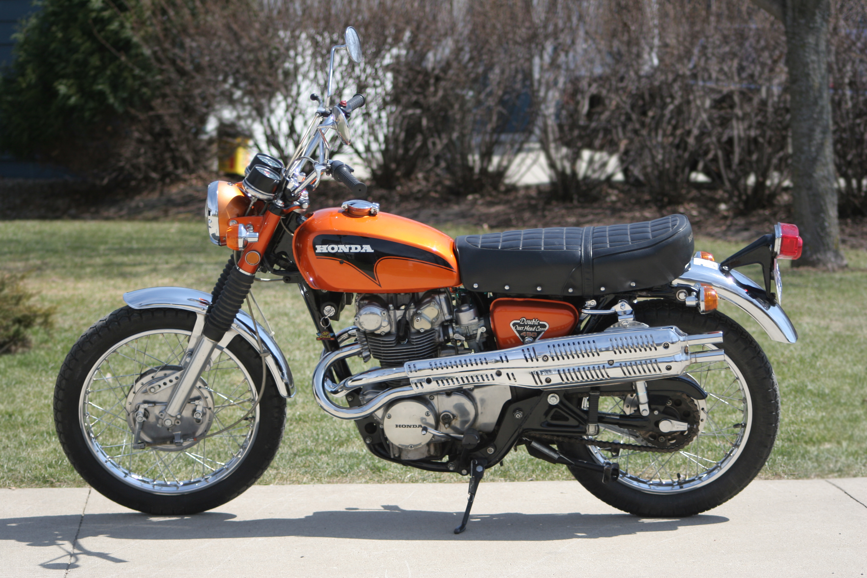 Honda CL450 K4 (1971)